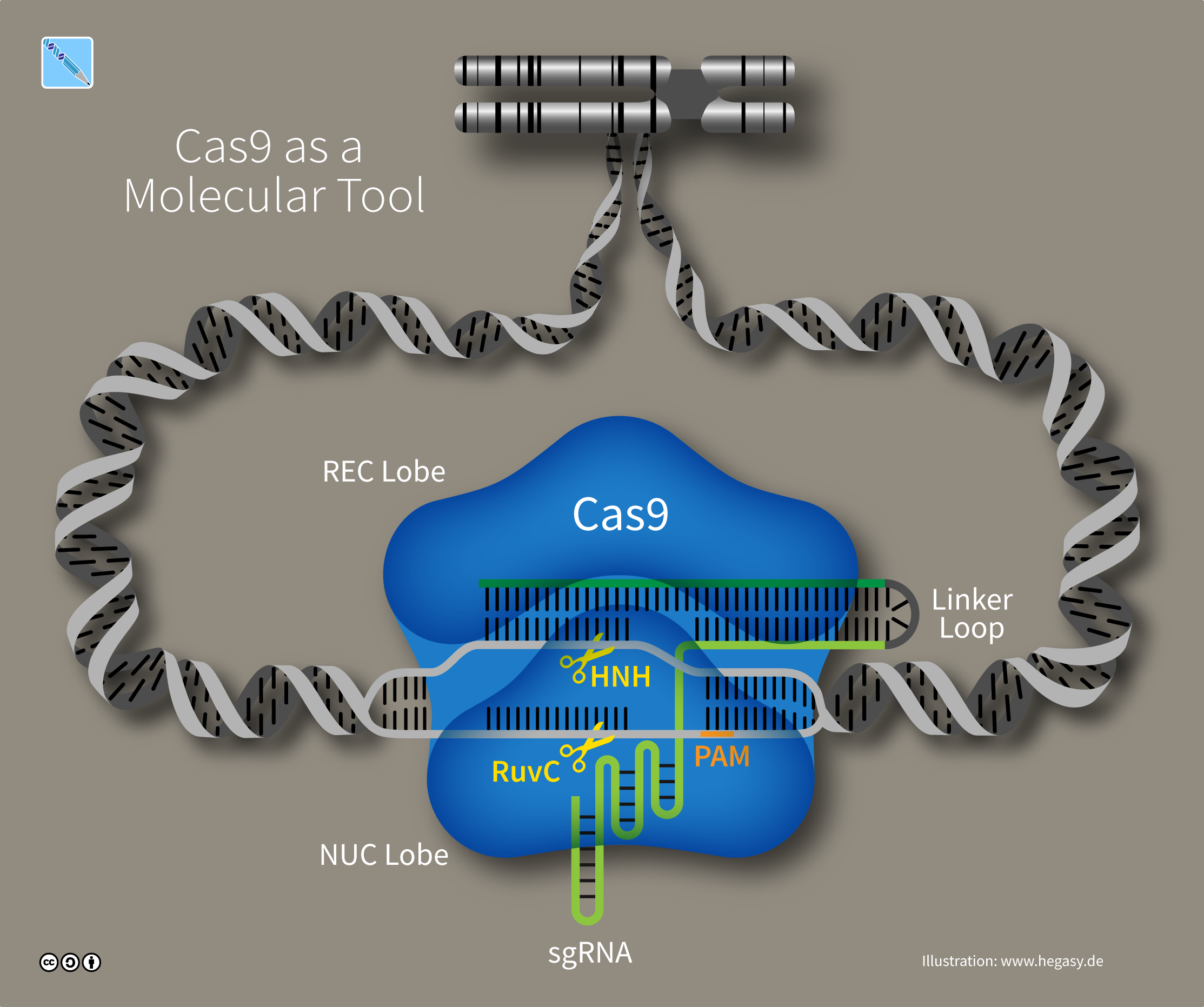 CRISPR-Cas9 as a Molecular Tool Introduces Targeted Double Strand DNA Breaks. By joining tracrRNA and crRNA derived sequences with a linker loop, a single guide RNA (sgRNA) is created. sgRNA can be synthesized chemically and thus makes it easy to use CRISPR-Cas9 as a programmable molecular tool. The complex consisting of sgRNA and Cas9 scans DNA for the presence of a protospacer adjacent motif (PAM). For Cas9 from S. pyogenes, this is a 5'-NGG-3' sequence. When a PAM sequence is detected, the complementary DNA strand is compared to the crRNA derived guide region. If these sequences match, the DNA double strand is cleaved ~3 bp away of the PAM, introducing a double-strand DNA break (DSB). With both domains located in the NUC lobe of Cas9, the HNH domain cuts the strand complementary to the guide sequence (target strand) while the RuvC domain cuts the opposite strand.